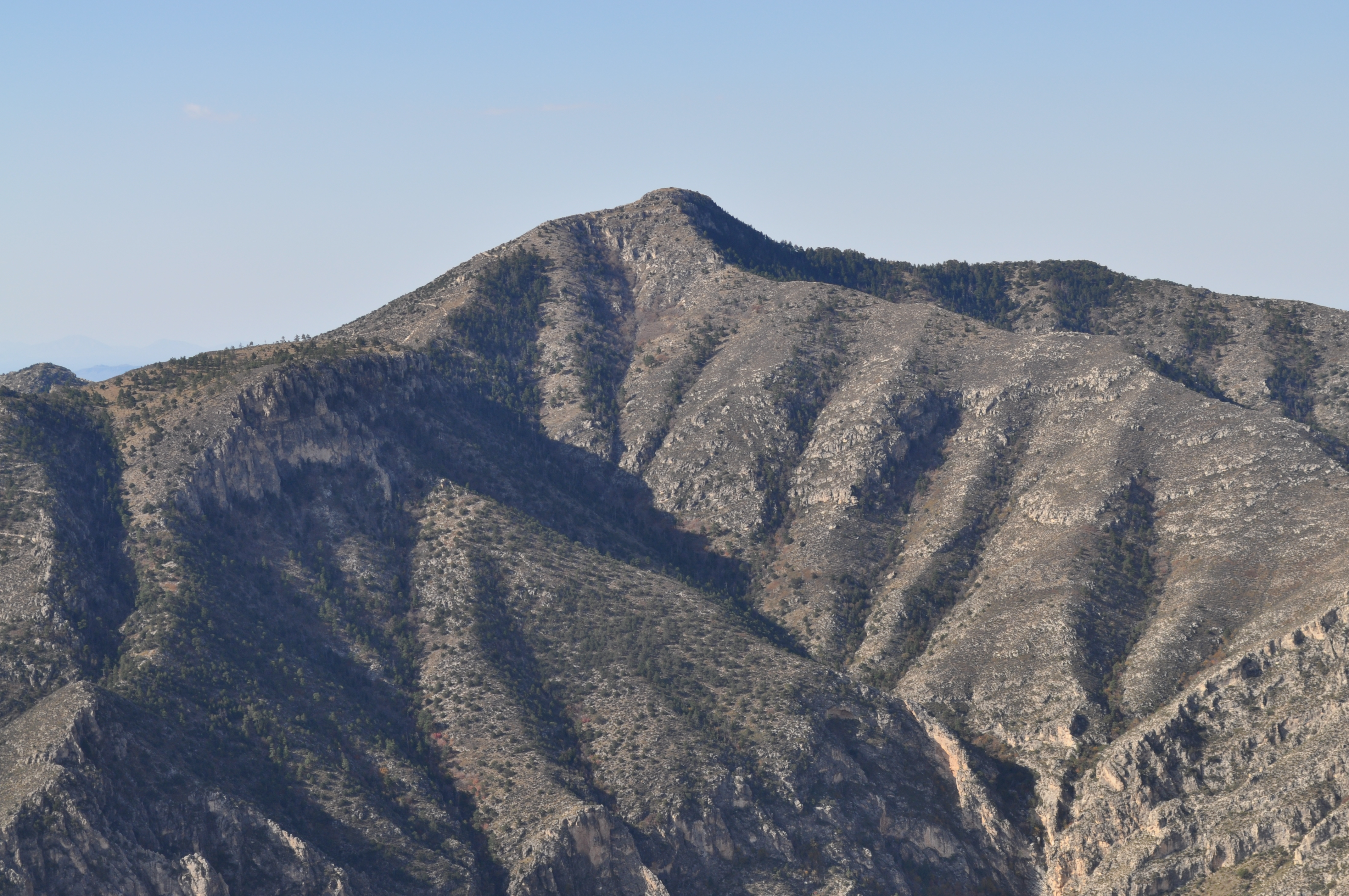 Guadalupe Peak viewed from Hunter Peak in Guadalupe Mountains National Park, Texas.